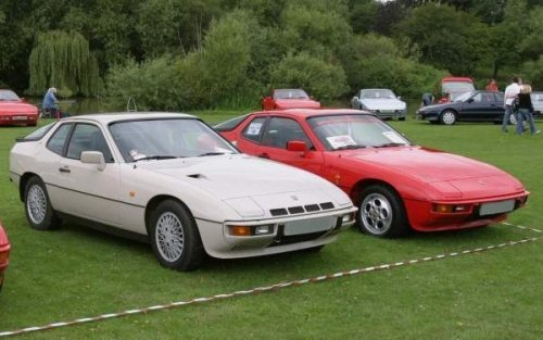 Porsche 924 Turbo (left) and Porsche 924 S (right)